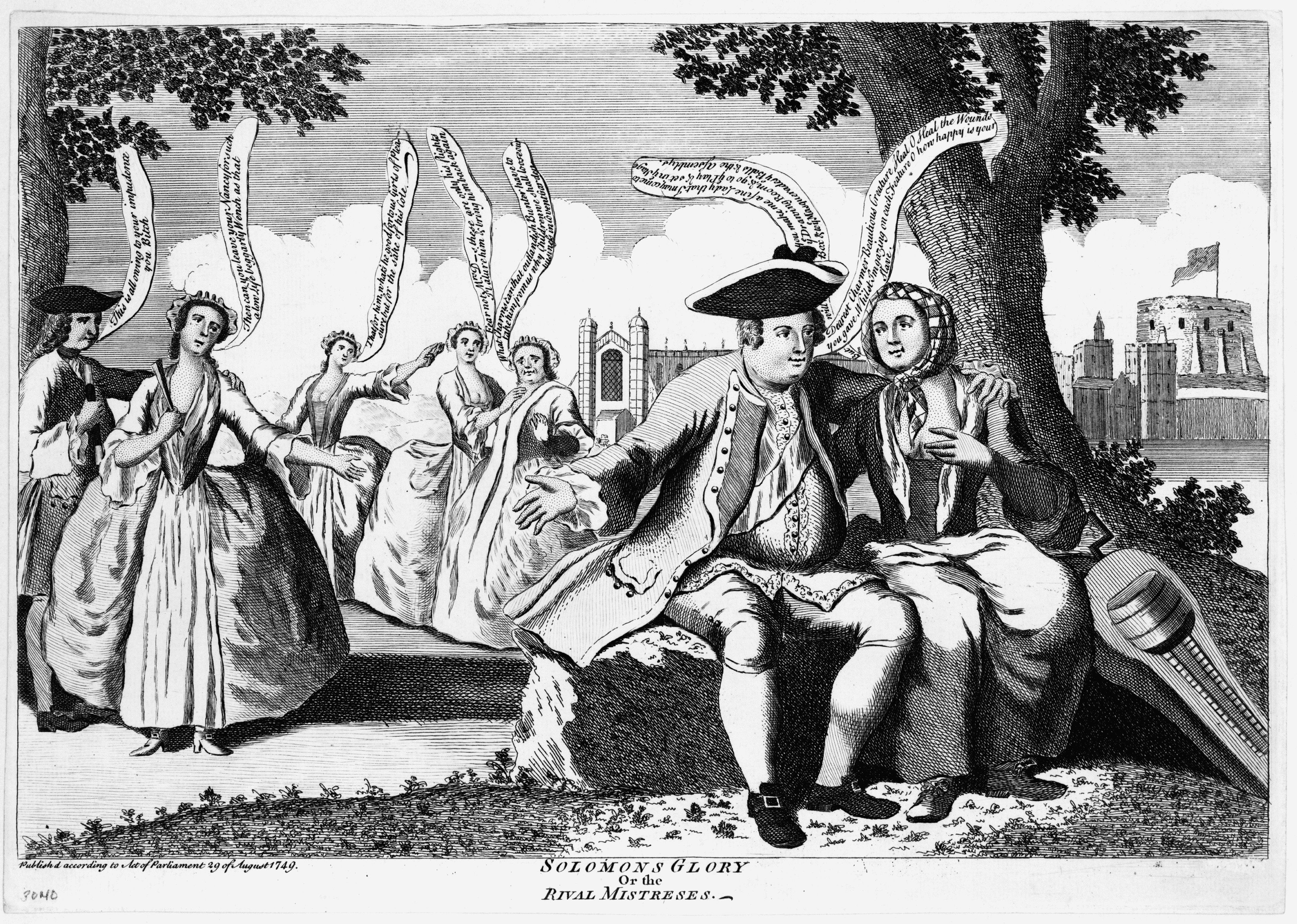 William Augustus. Solomons glory, or the rival mistresses. Duke of Cumberland seated on a bank with the Savoyard girl, his arm about her neck. The Duke's rival mistresses stand behind, and are vehemently jealous. In the distance appear Windsor Castle and Eton College Chapel. Published according to Act of Parliament in London, 29 of August 1749.